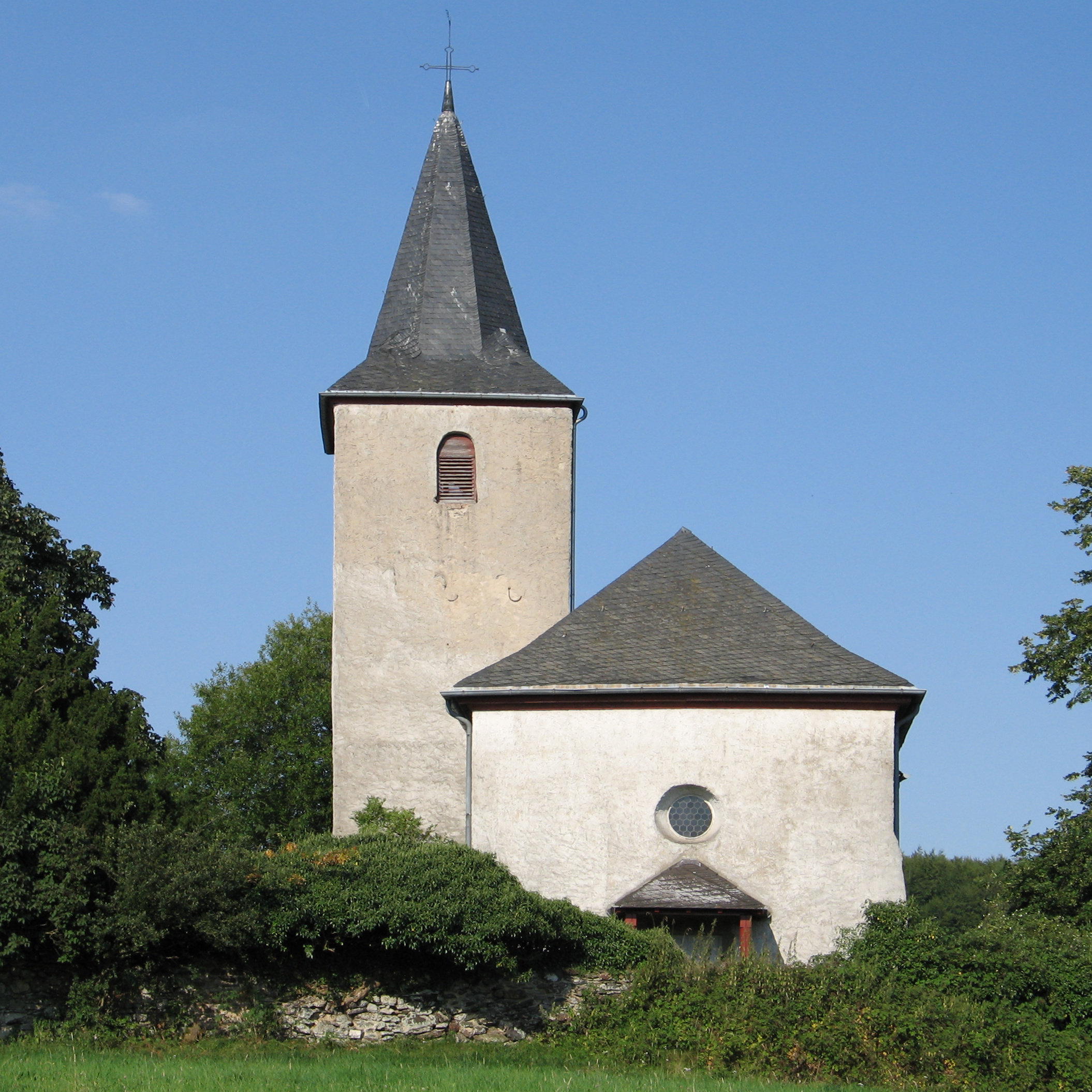 Medieval church of Habenscheid near Wasenbach, Rhein-Lahn-Kreis, Germany. View from west-southwestern direction.